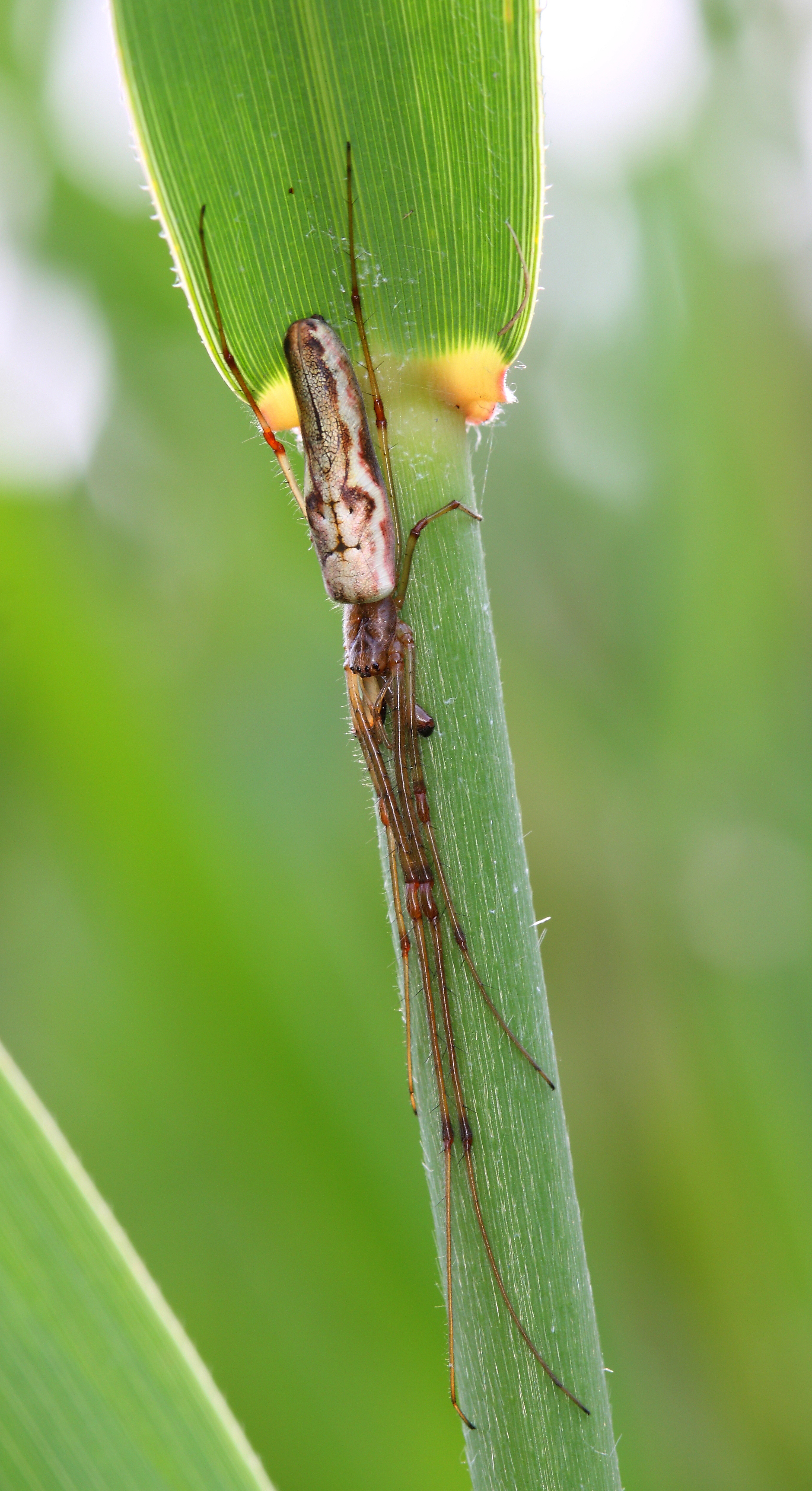 Longfoot spiderBody Length: 13–15 mmTotal Length: 40–50 mm (including legs)Occurrence: Japan